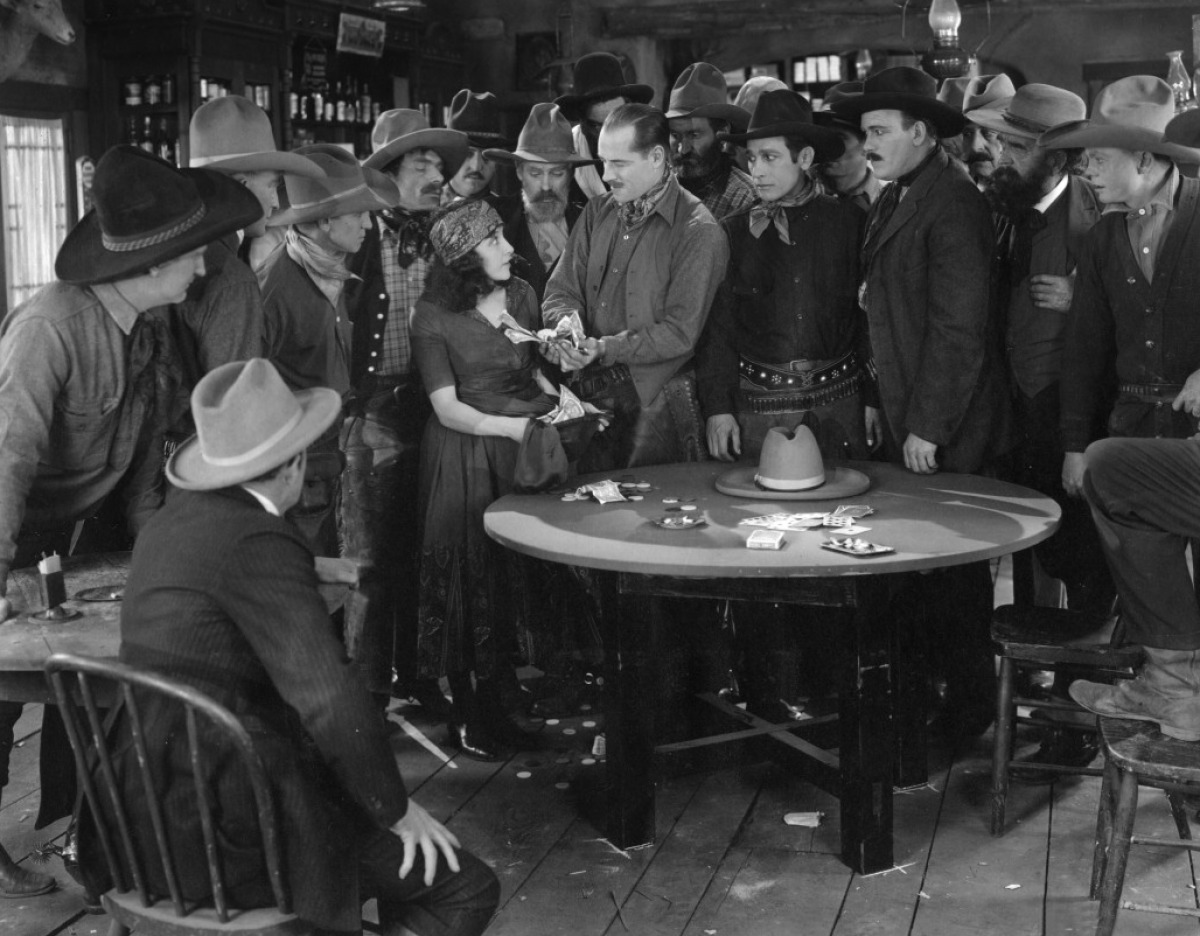 Shannon Day and Jack Holt (center) in North of the Rio Grande (1922) - cropped screenshot.